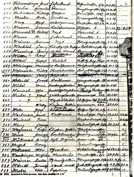 List of early members of the Deutsche Arbeiterpartei, the immediate predecessor of the NSDAP, from 1920.